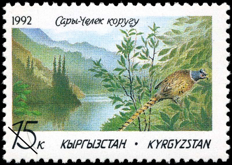 Kyrgyzstan 15-kopeck stamp of 1992.